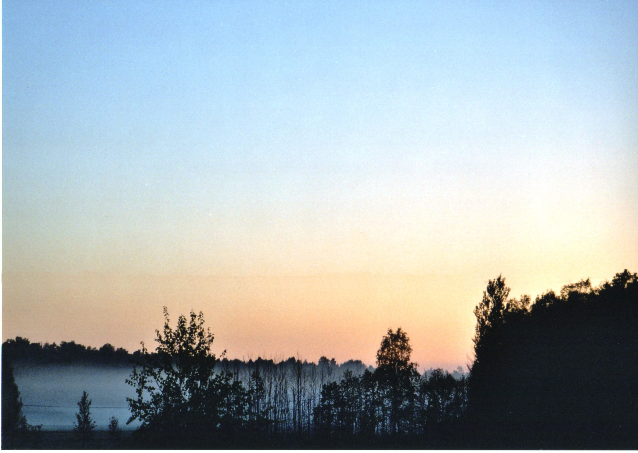 Taken by my at various different times Mist and sunrise